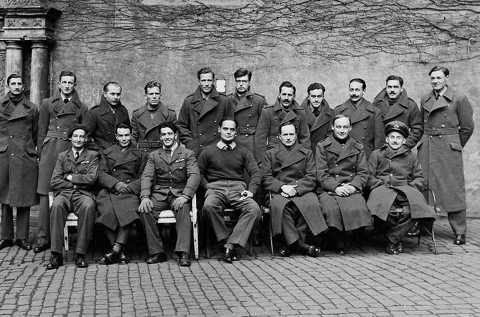 colditz 17b p1 scanned by photo cd_13.07.01 from CD supplied by Hodder & Stoughton Publishers Caption_ COLDITZ